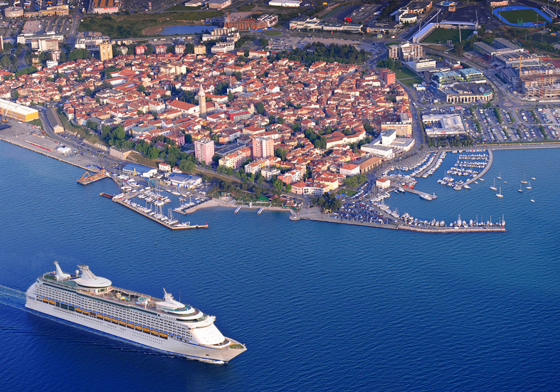 Koper Panoramic view